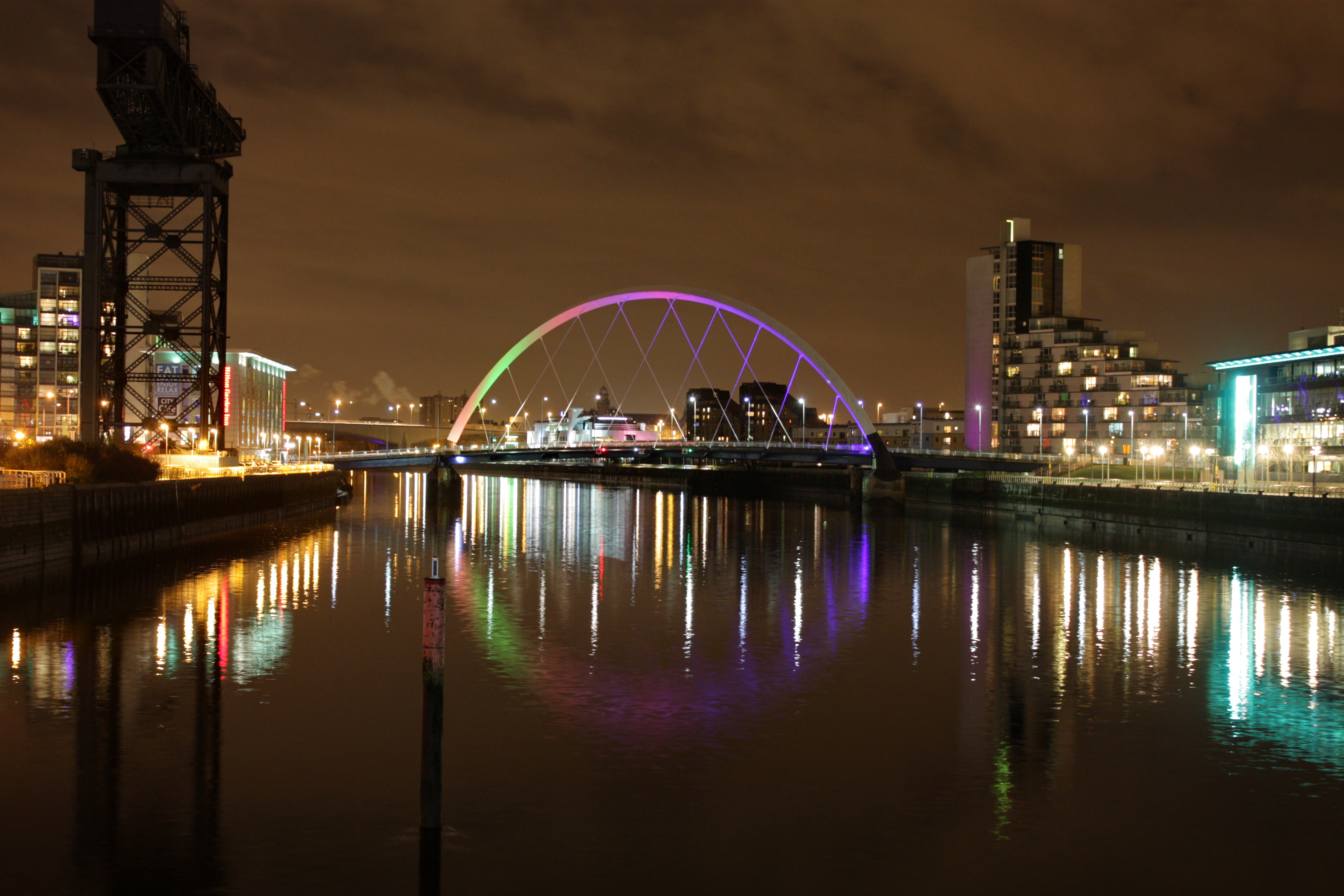 Skyline of the City of Glasgow in Scotland